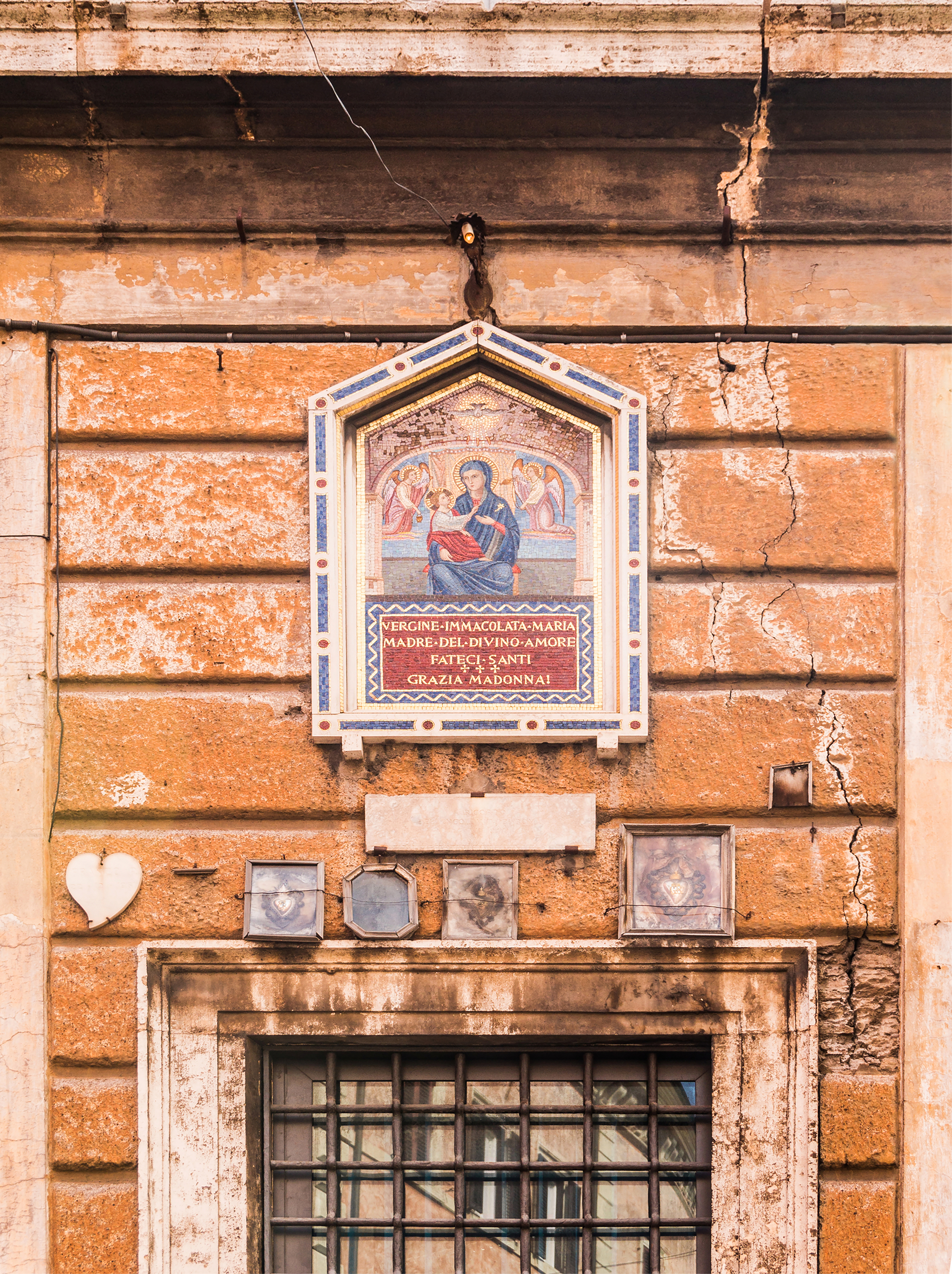 Ex-voto, Palace Aragonia-Gonzaga, Rome, Italy.